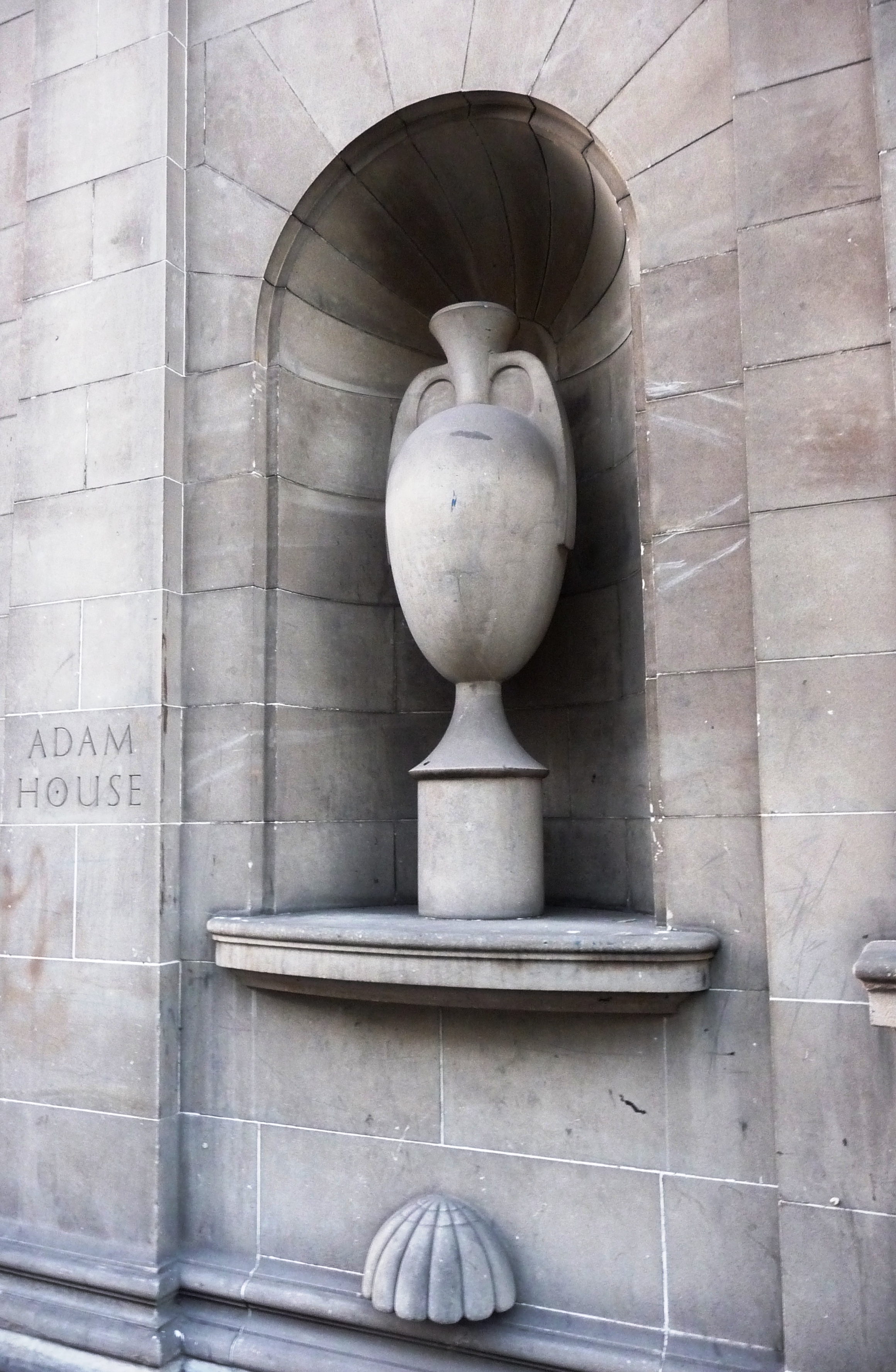 William Kininmonth, 1953